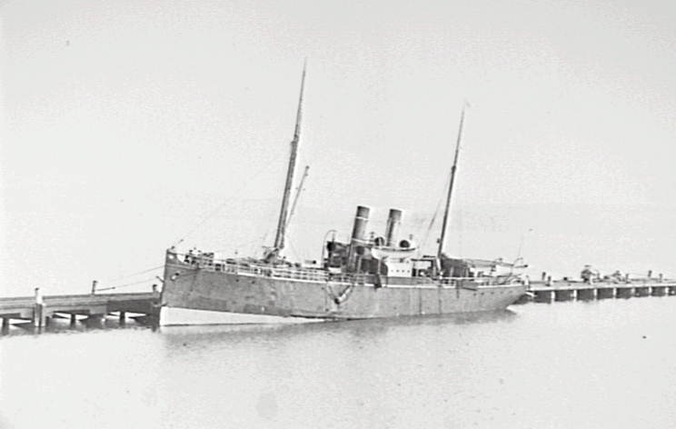 Illawarra Steam Navigation Company's 515 GRT steamship Kameruka, built in 1880 by Russell & Co at Port Glasgow, Renfrewshire, Scotland. She was wrecked in 1887 on Pedro Rocks, Moruya Heads, New South Wales